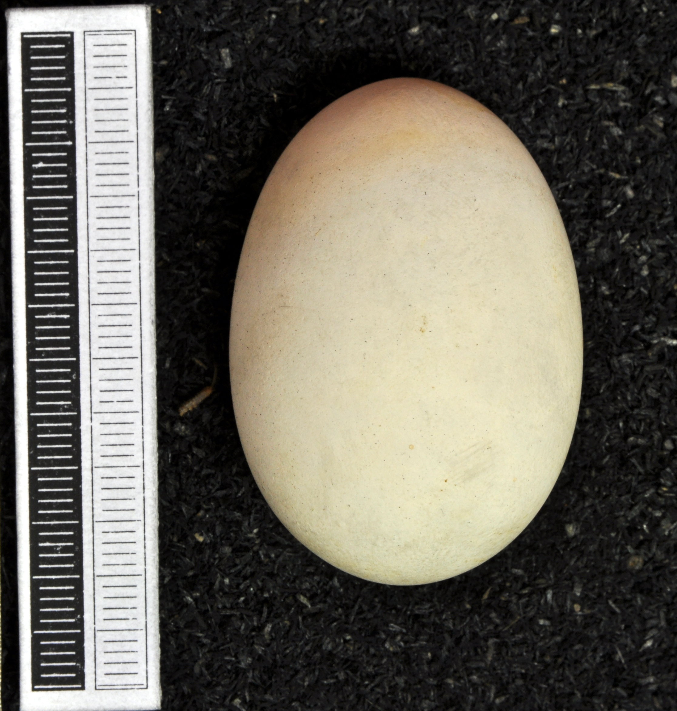 Antarctic prion Pachyptila desolata , egg, Coll. Museum Wiesbaden